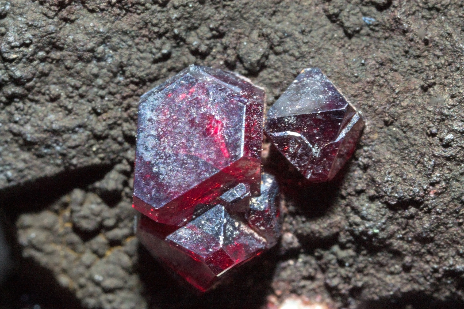 cuprite : Mineral Creek property (Mineral Creek deposit); Ray Mine area, Mineral Creek District (Ray District), Dripping Spring Mts, Pinal Co., Arizona, USA